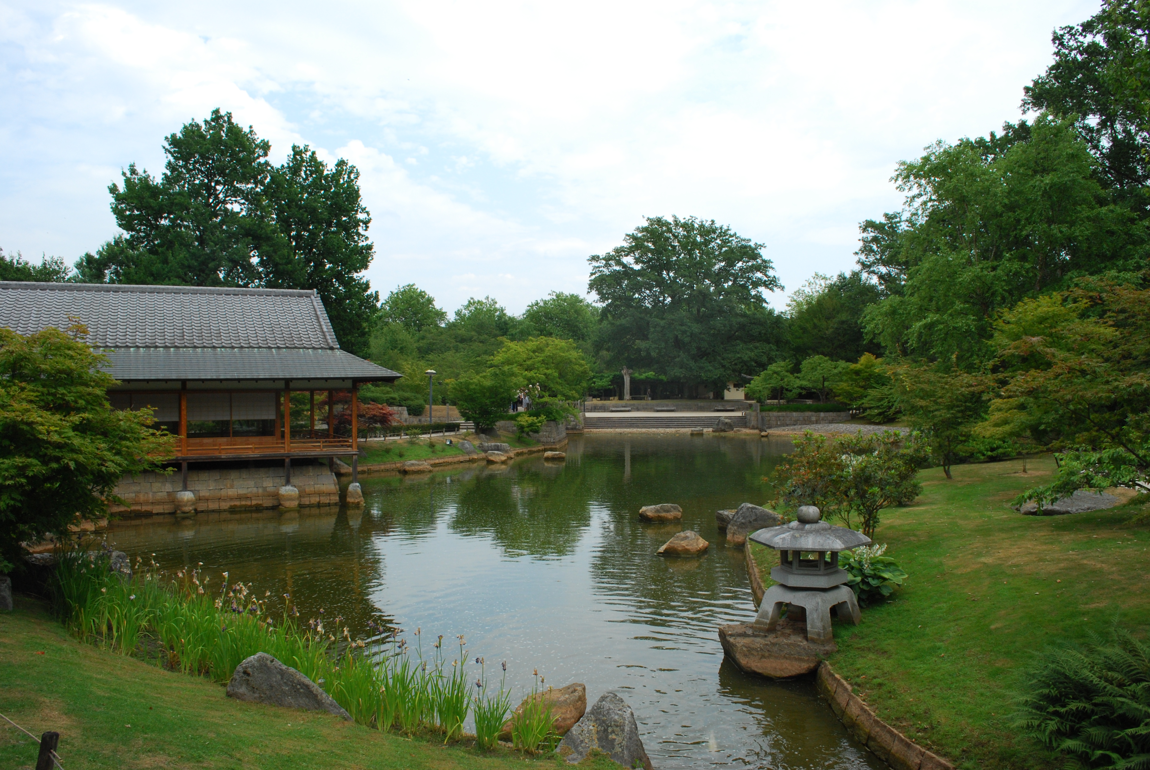 The japanese garden of Hasselt.